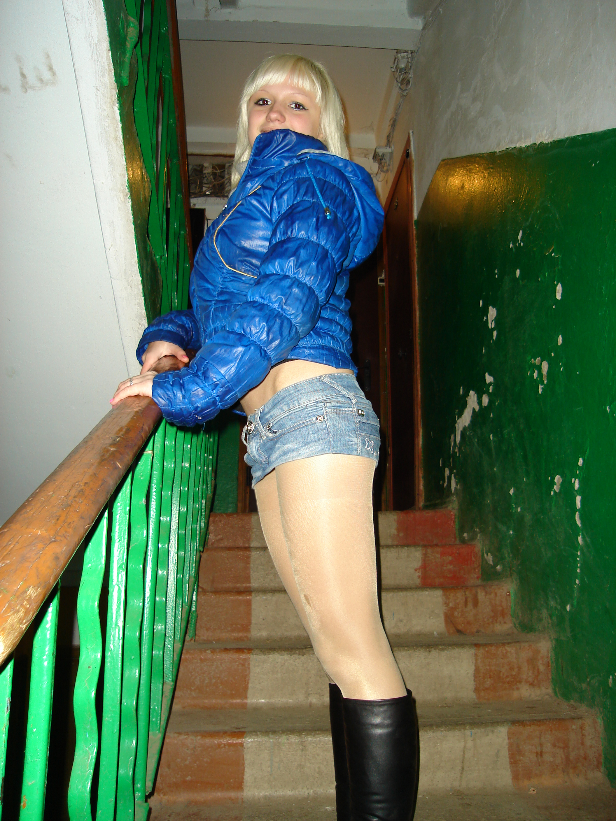 micro skirt